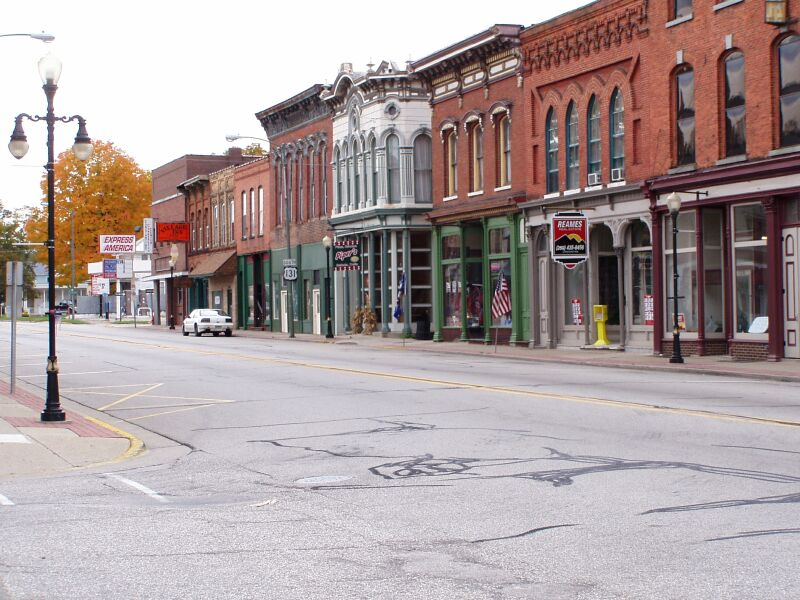 U.S. 131 or Washington St. in Constantine, Michigan